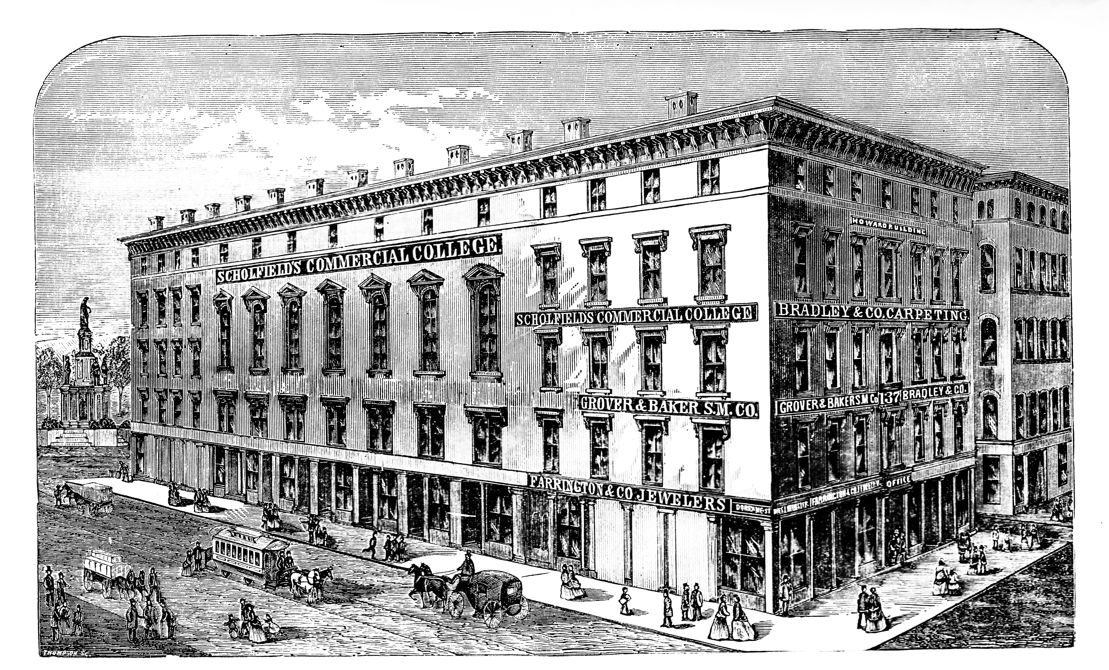 Engraving dated September 4, 1882, of Scholfield's Commercial College. This college was located in the Howard Building, at the corner of Dorrance Street and Westminster Street in Providence, RI. James C. Bucklin, architect. Note the Soldiers and Sailors Monument to the left. Businesss names on the building include: Farrington & Co. Jewelers; Grover & Baker S.M. Co.; and Bradley & Co. Carpeting. This building was demolished in 1957, after sustaining damage by Hurricane Carol.